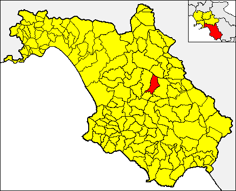 Locator map of the municipality of Sant'Angelo a Fasanella (red) within the Province of Salerno